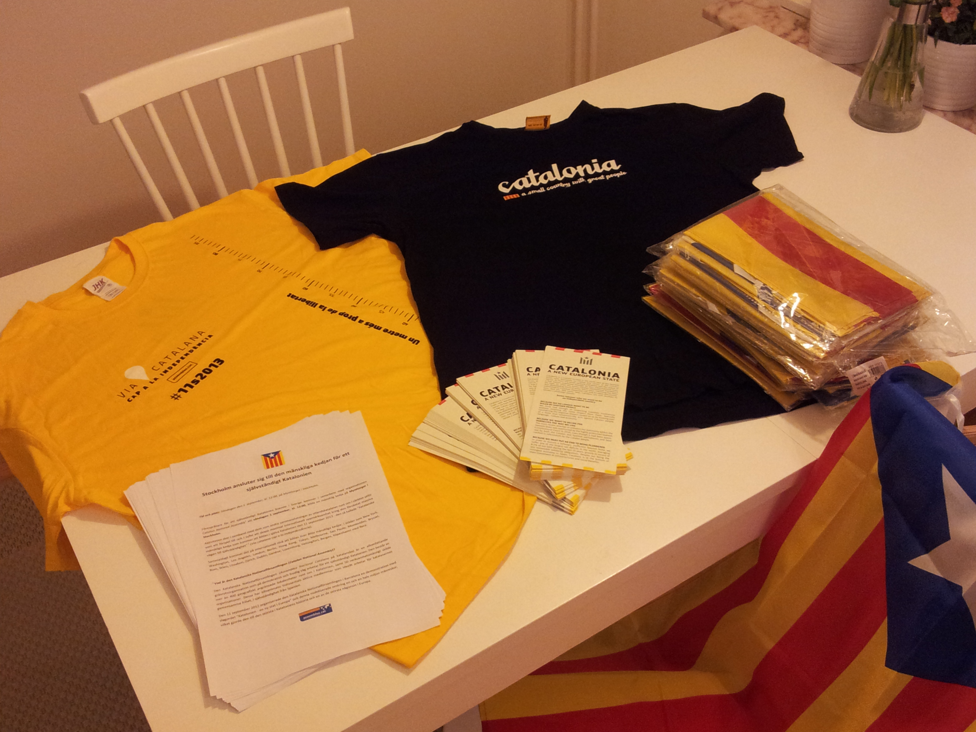 Catalan Way T-Shirt (yellow one)